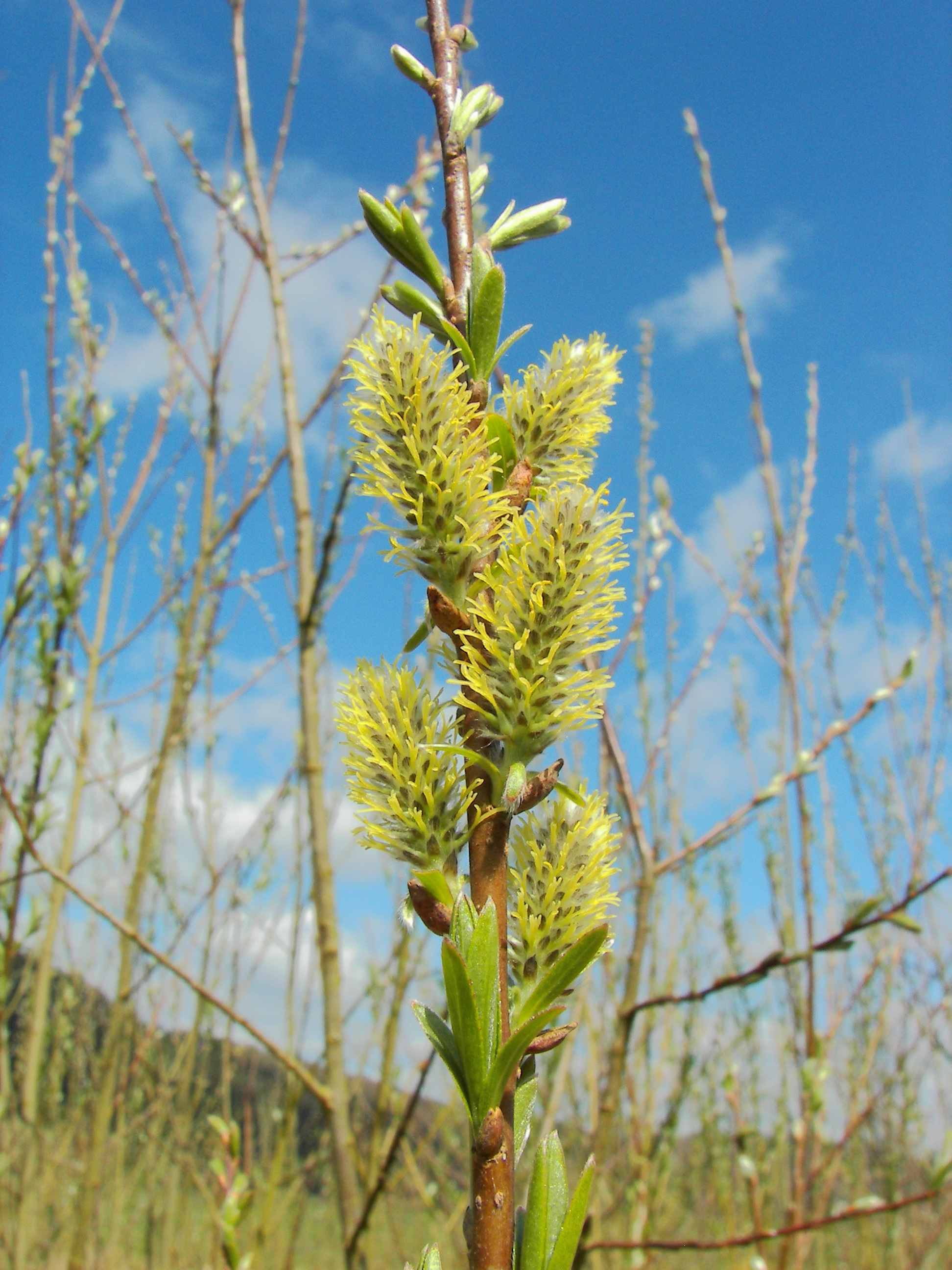 Common Osier (Salix viminalis), female catkins, Location: Lahntal-Goßfelden, Hesse, Germany